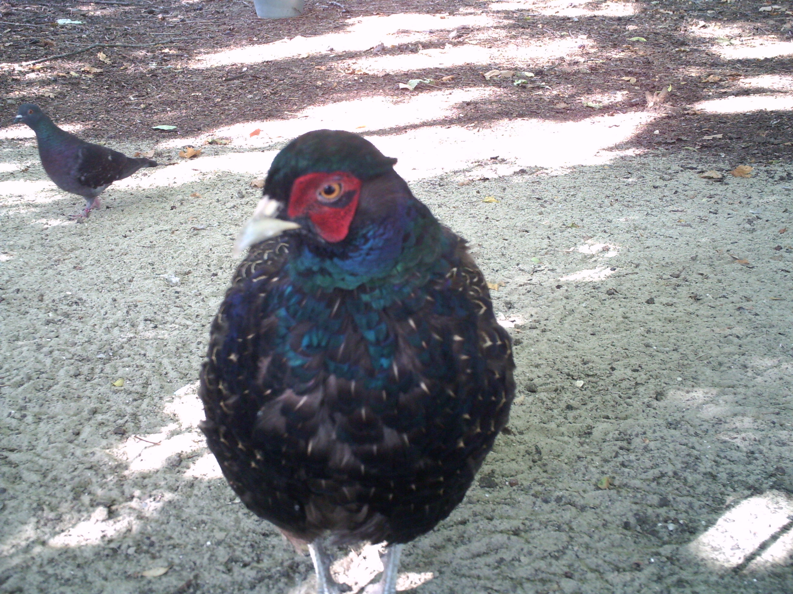 Phasianus colchicus in Rostov-on-Don «Park Revolutsii»